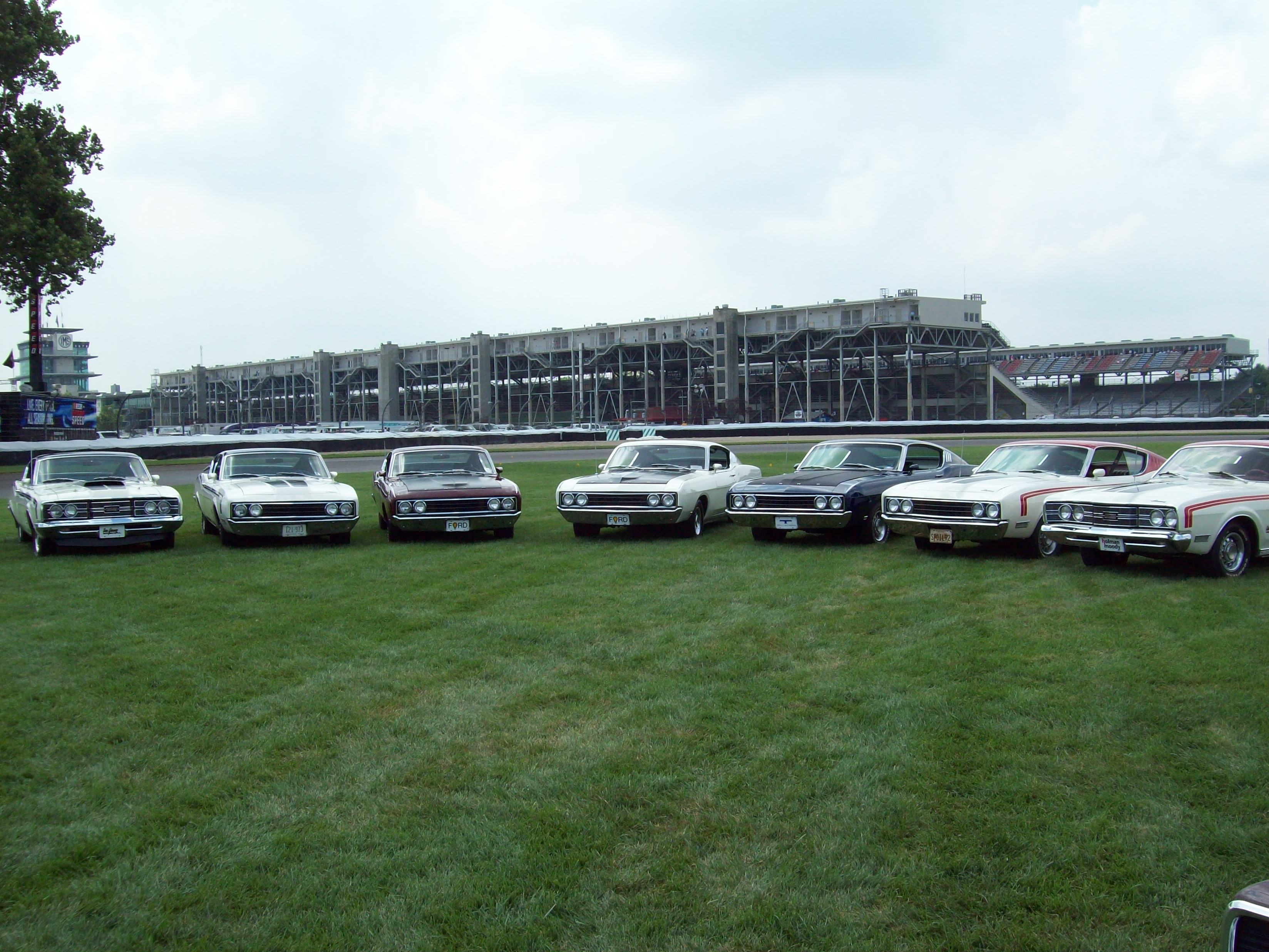 Talladega, Spoiler, and Spoiler II in the seven colors and bodystyles of Aero Cars built by Ford and Mercury